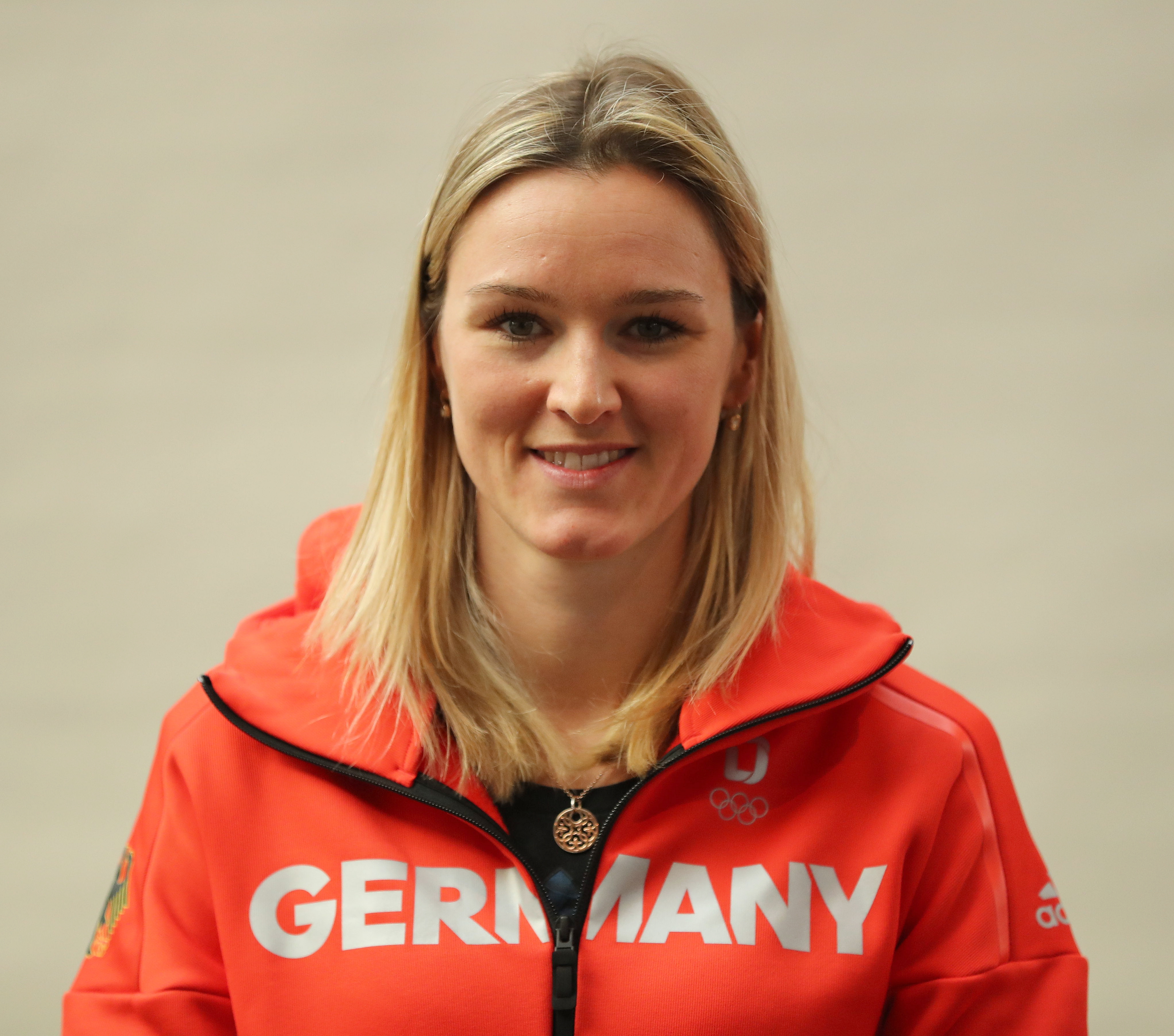 Portraits at the Clothing of the German team for Winter Olympics 2018 in Pyeonchang.